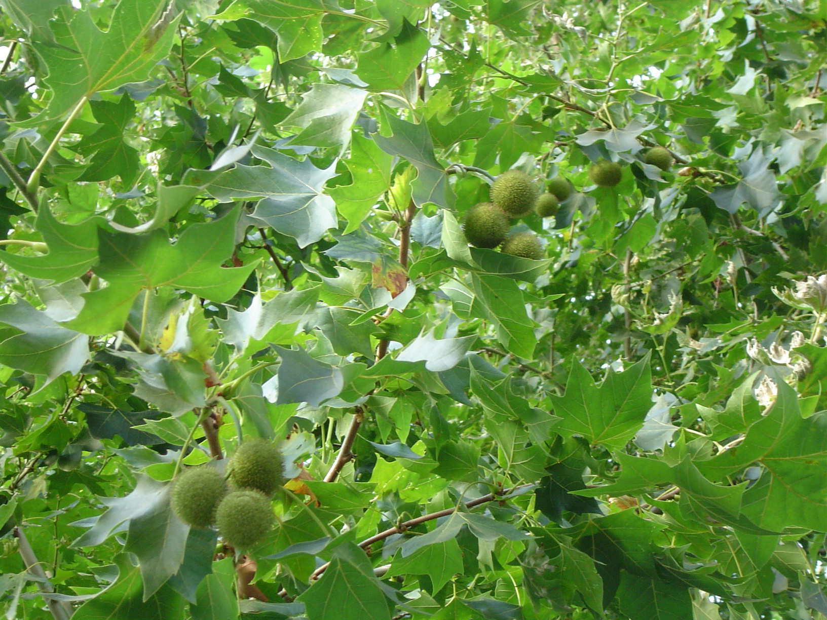 Photographed and uploaded by User:Geographer London Plane in Whittier College, on July 23, 2005